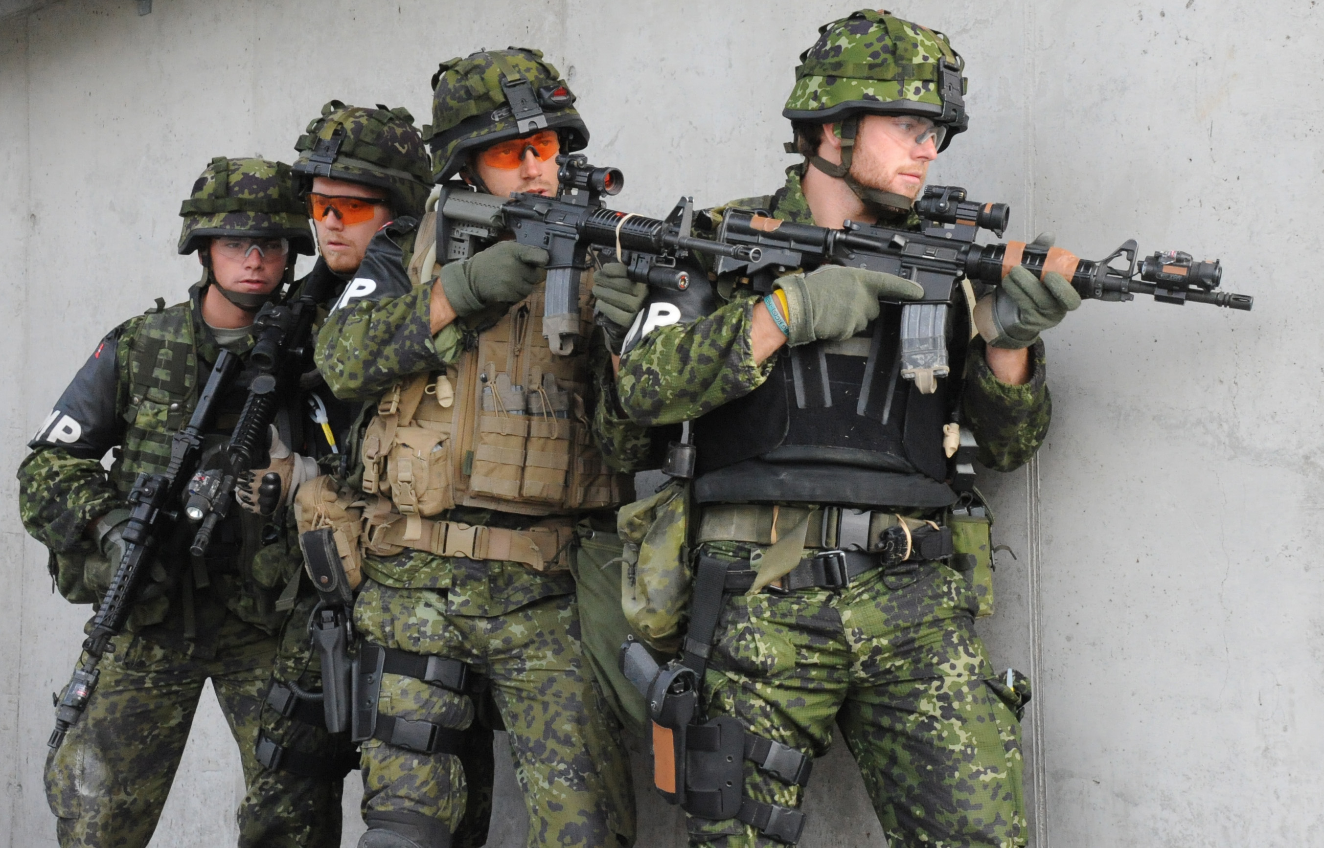 Danish army military police officers conduct advanced law enforcement training involving high risk arrest scenarios at the Grafenwoehr Training Area in Germany Sept. 22, 2009.